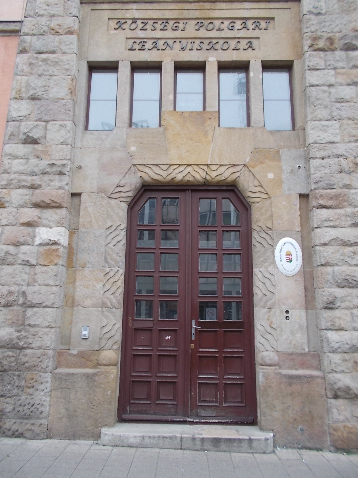 József Attila High School. - Váli Street, Lágymányos neighborhood, Budapest District XI. Hungary.